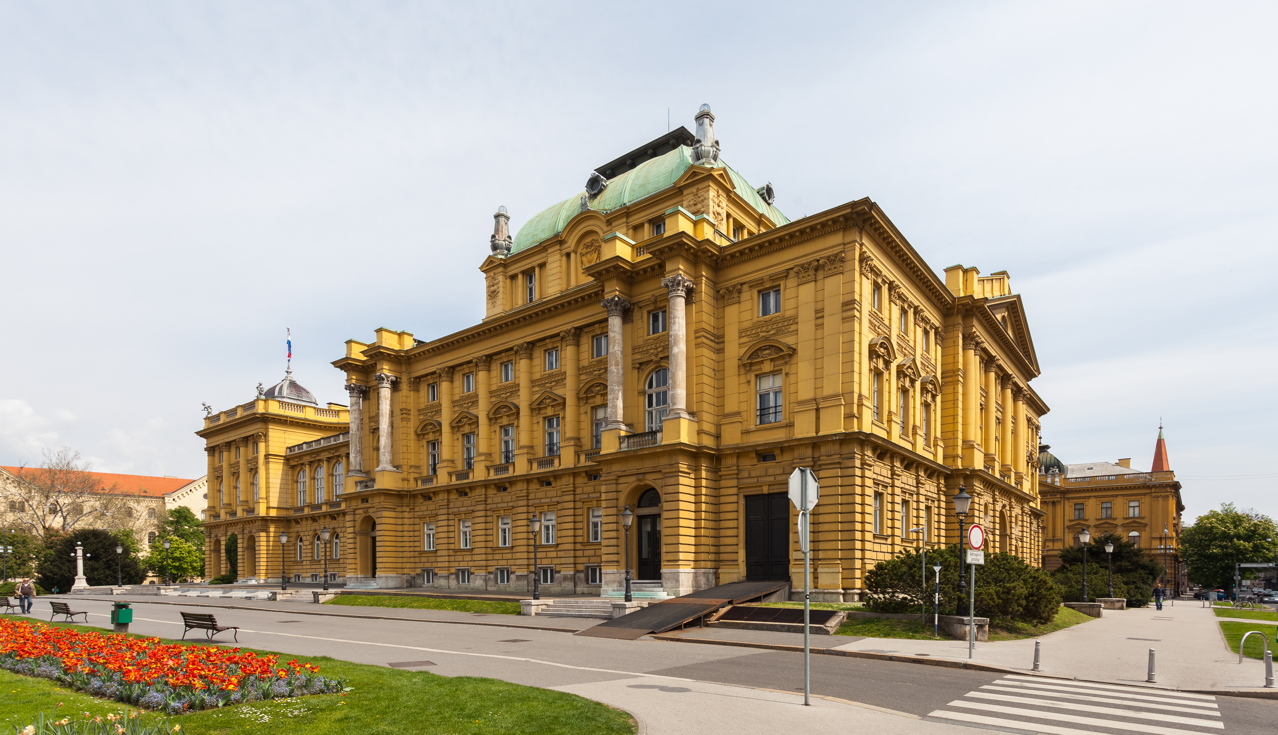 Croatian National Theater, Zagreb, Croatia